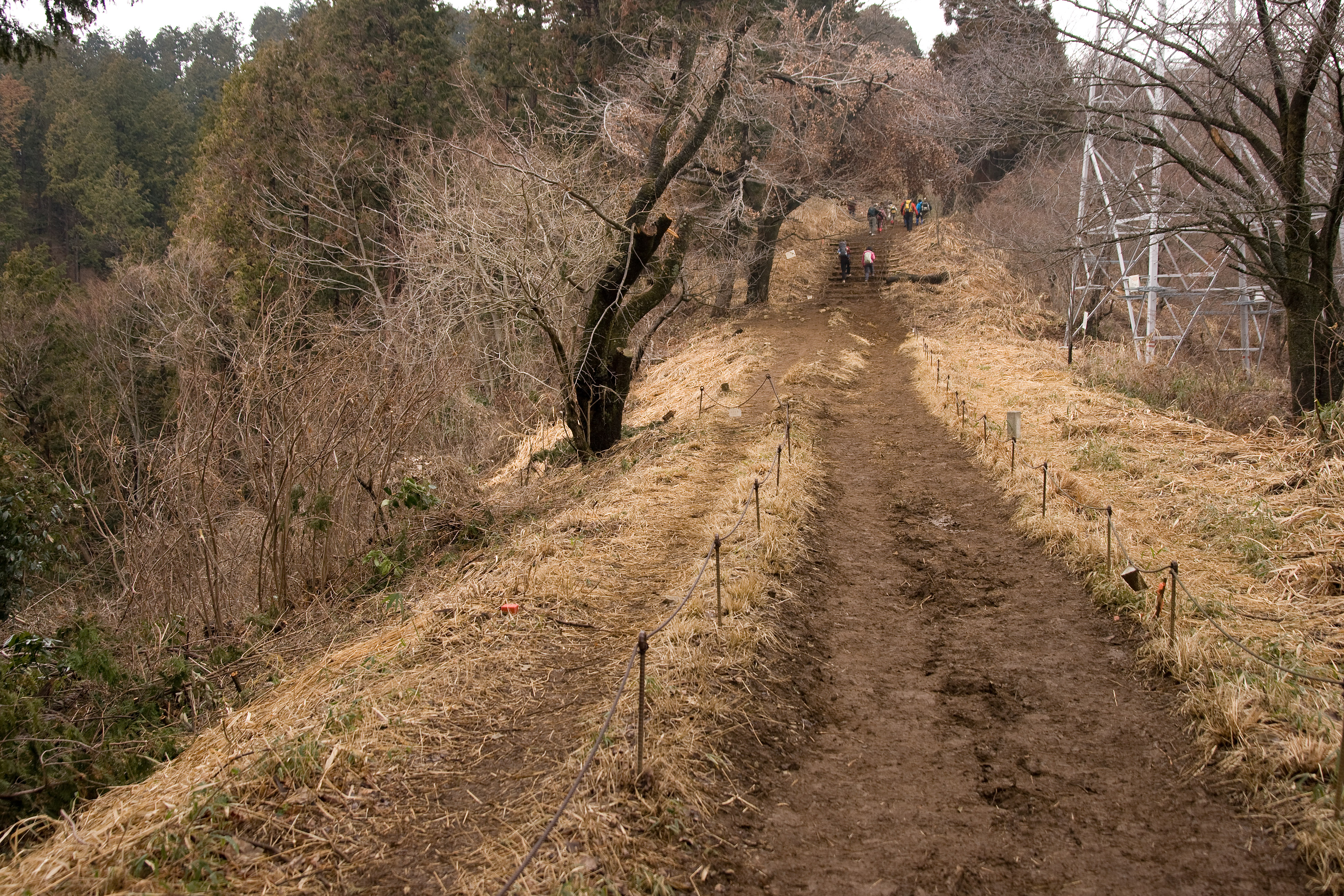 The Tokai Nature Trail in Mt.Shiro, Hachioji, Tokyo, Japan.